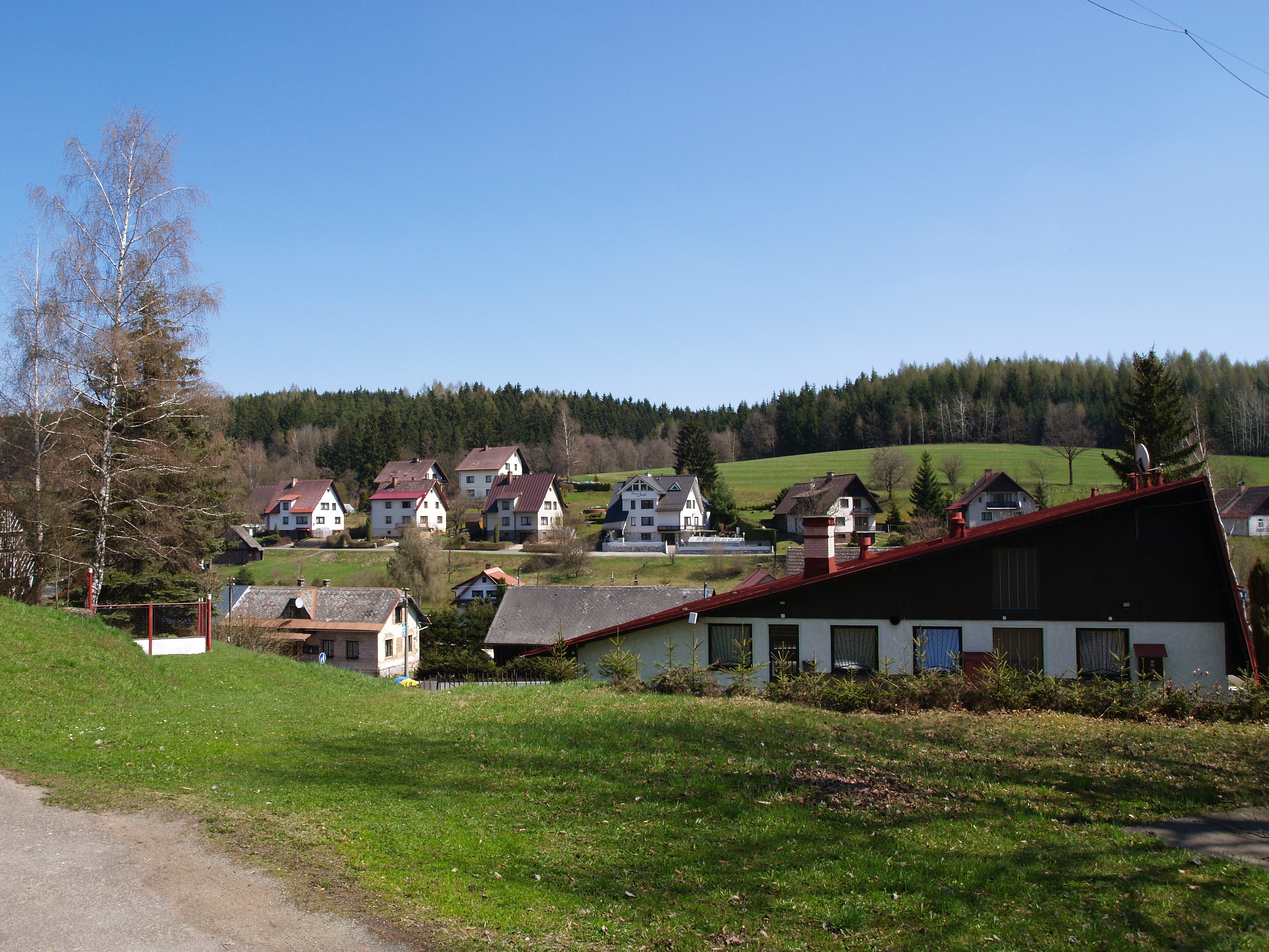 View of Czech village Mříčná